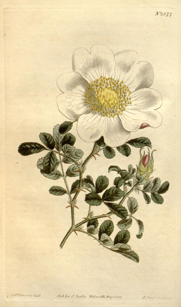 Illustration of Rosa bracteata